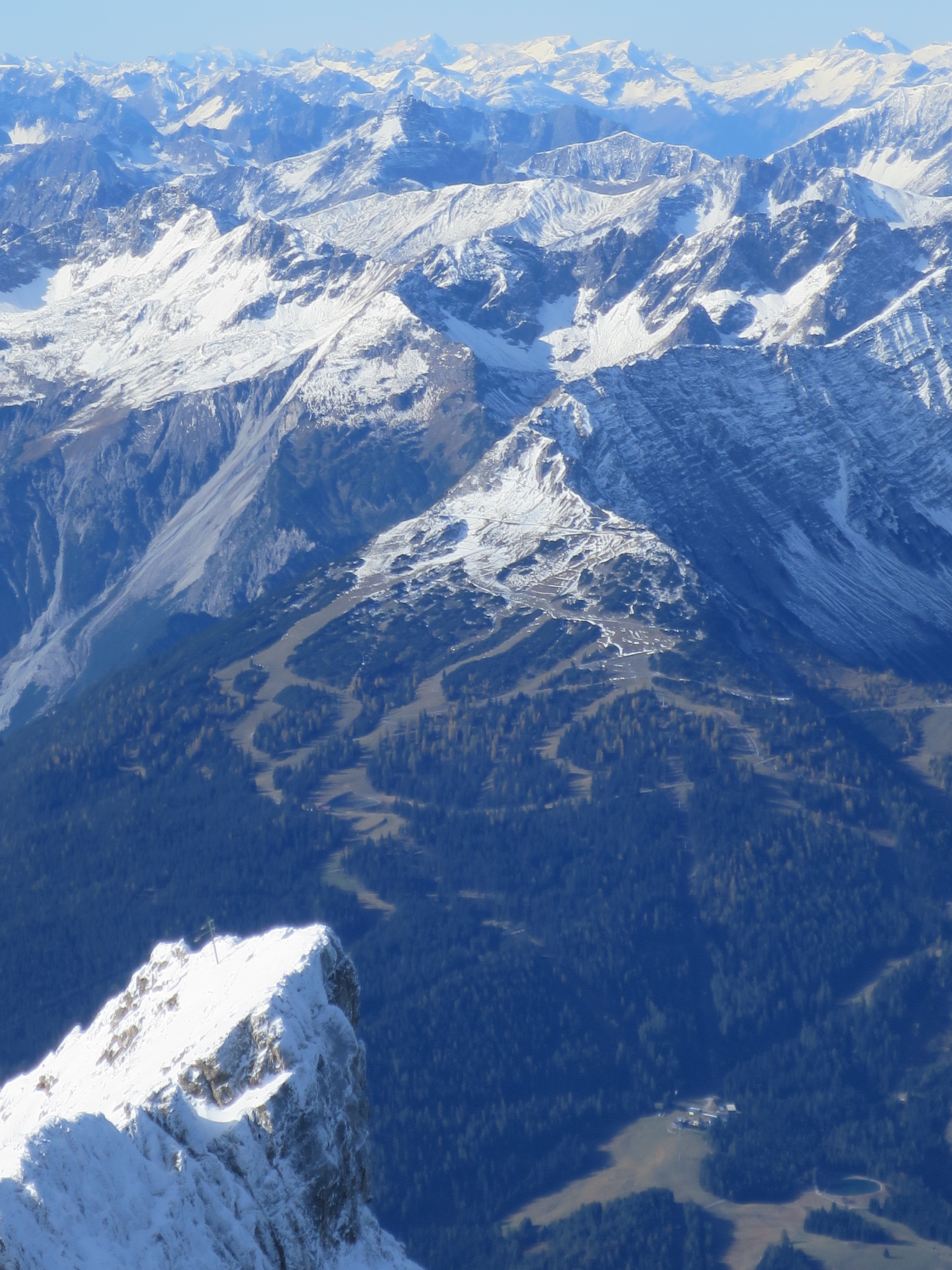 Blick von der Zugspitze auf den Grubigstein (Bildzentrum)